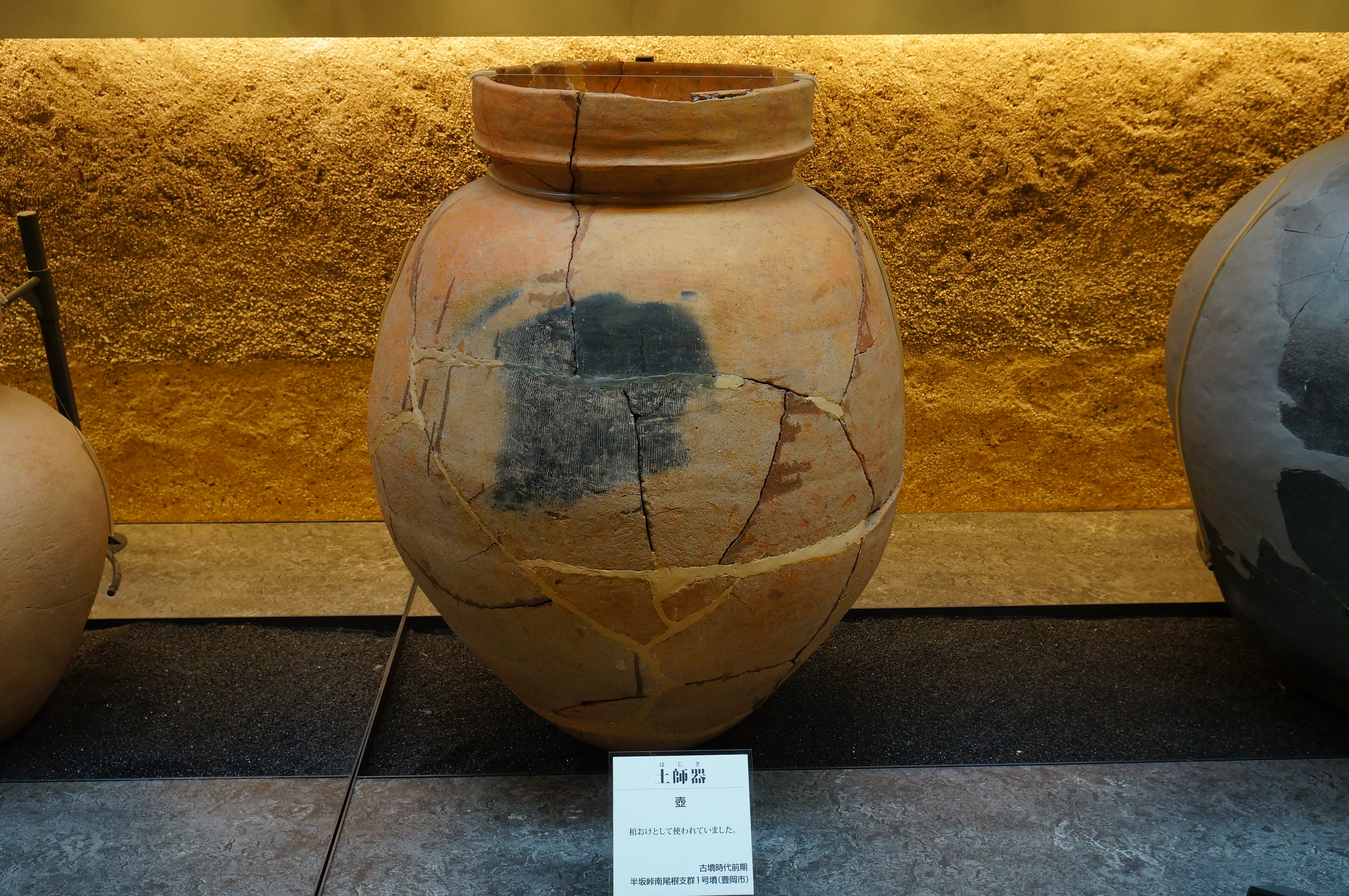 At Hyogo Prefectural Museum of Archaeology in Harima, Hyogo prefecture, Japan.